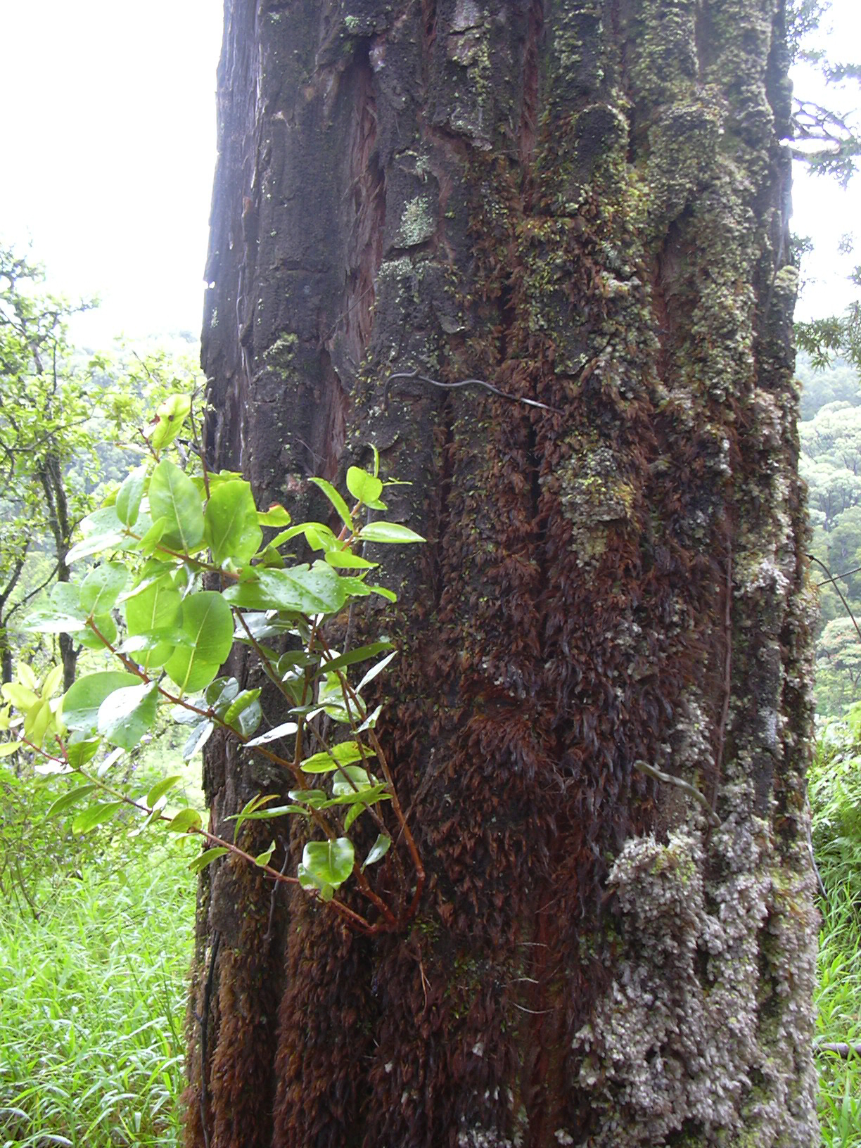 Metrosideros polymorpha (epiphyte on Eucalyptus). Location: Maui, Kopiliula